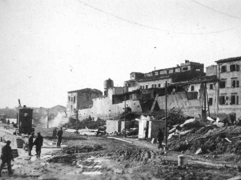 C 19 Antilope (Livorno '44)